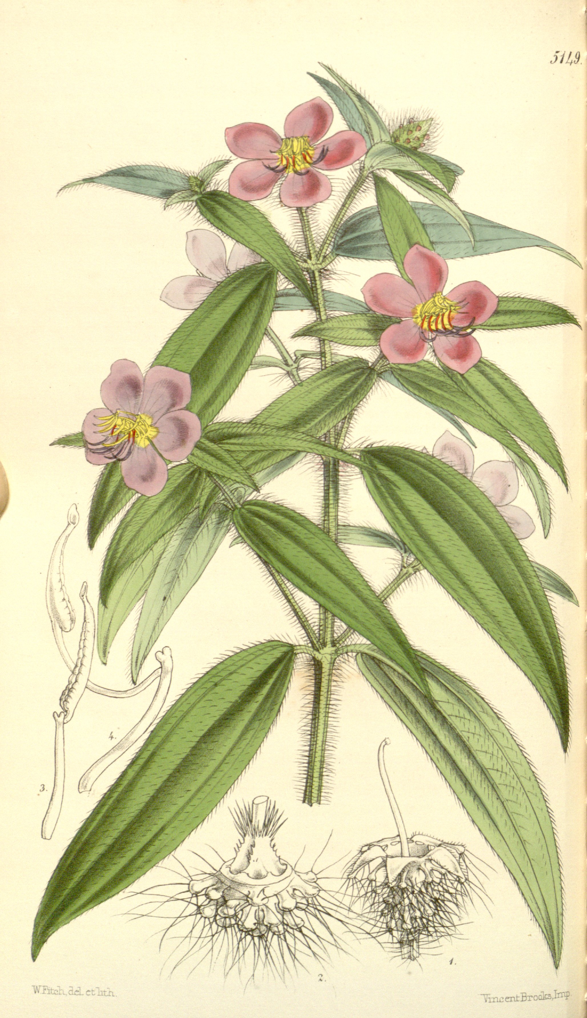 Dissotis irvingiana (= Antherotoma irvingiana), Melastomataceae